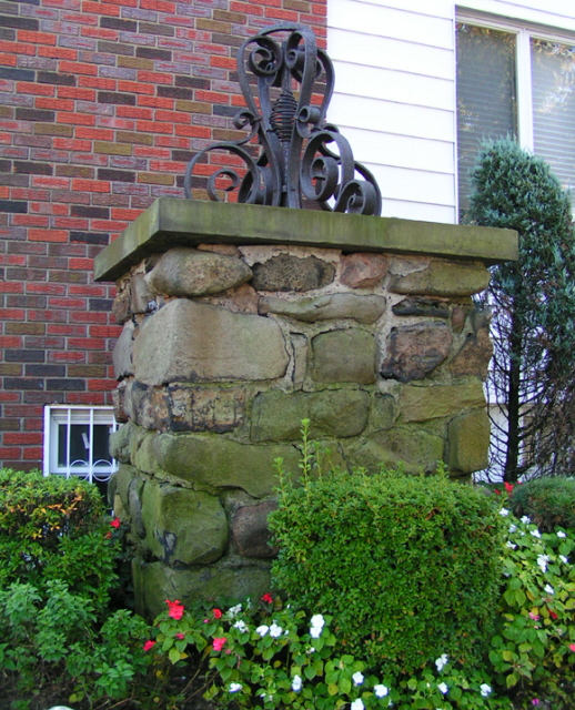 This massive stone pier is located at the southeast corner of Eleventh Avenue and 79th Street. Two of the massive stone piers are addorned with scrolls and are now located within yards of later homes, whereas two smaller piers are located near the street, on the sidewalk. This group of four piers is the only complete set of the original entrance ways of Dyker Heights. Originally, atop the scrolls were large lanterns, burning gas.